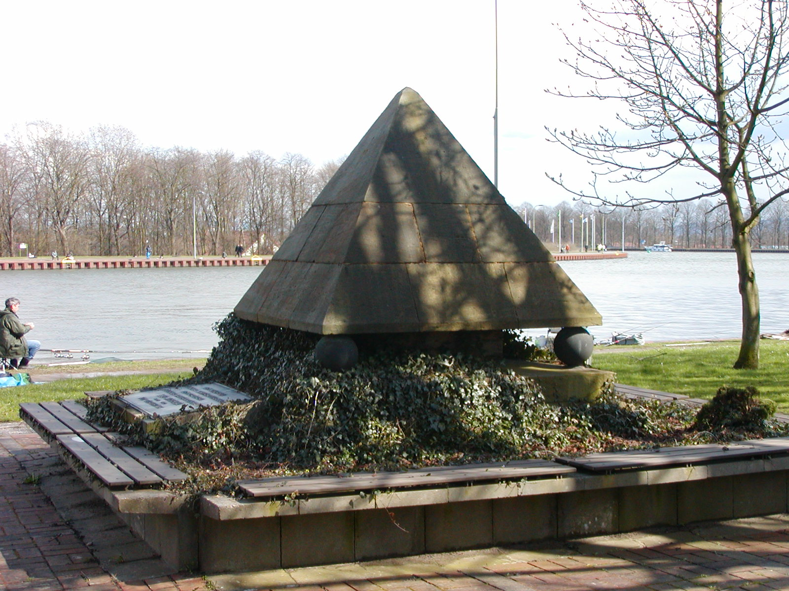 This image shows a heritage building in Germany, located in the North Rhine-Westphalian city Minden (no. 541).